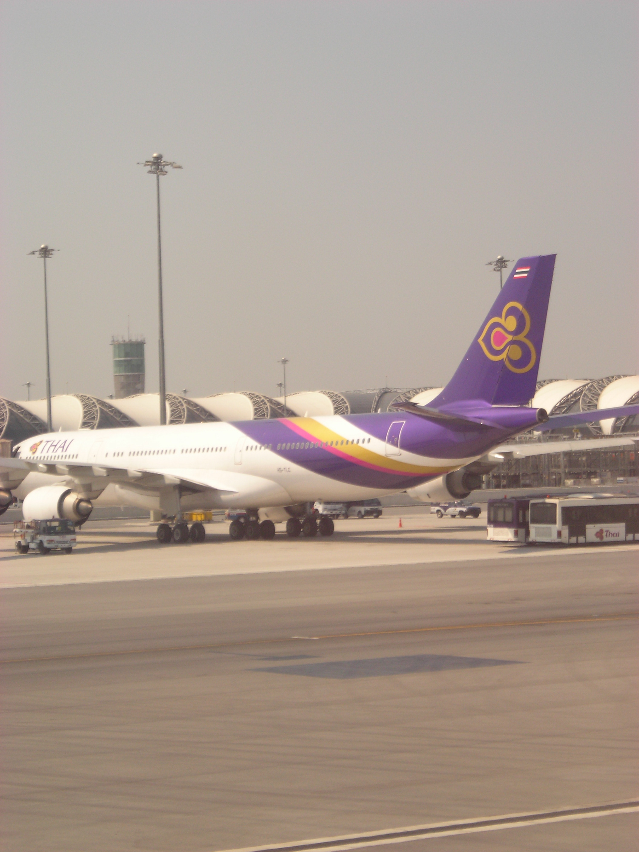 New livery of a Thai Airways Airbus A340-500 aircraft, seen at Suvarnabhumi International Airport, Thailand.